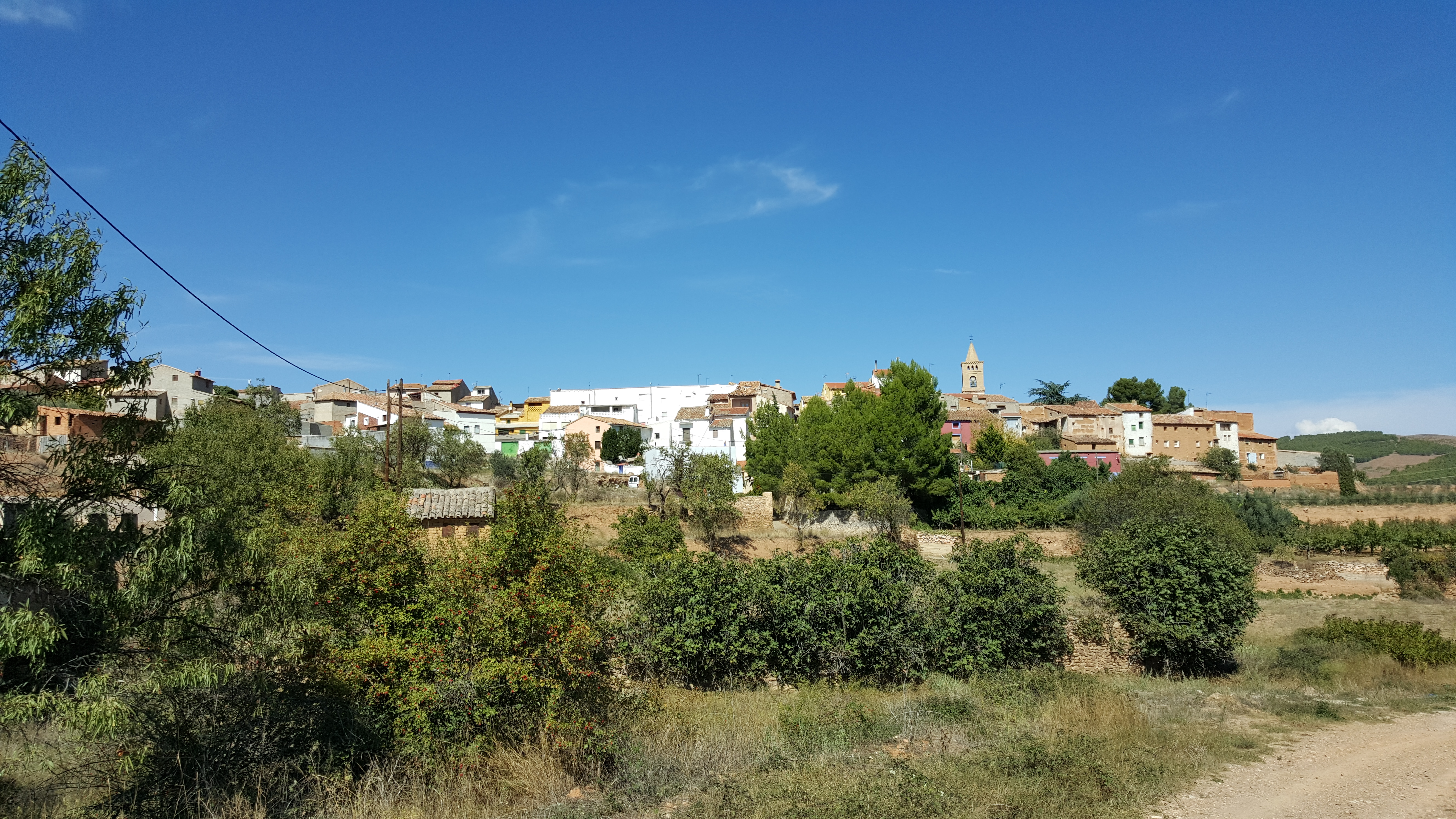 La Vilueña, Zaragoza, Spain